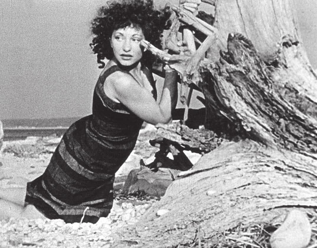 Maya Deren from the 1944 experimental short At Land. Summary At Land (1944) is a 15-minute silent experimental film written, directed by, and starring Maya Deren. It has a dream-like narrative in which a woman, played by Deren, is washed up on a beach and goes on a strange journey encountering other people and other versions of herself. Deren once said that the film is about the struggle to maintain one's personal identity.